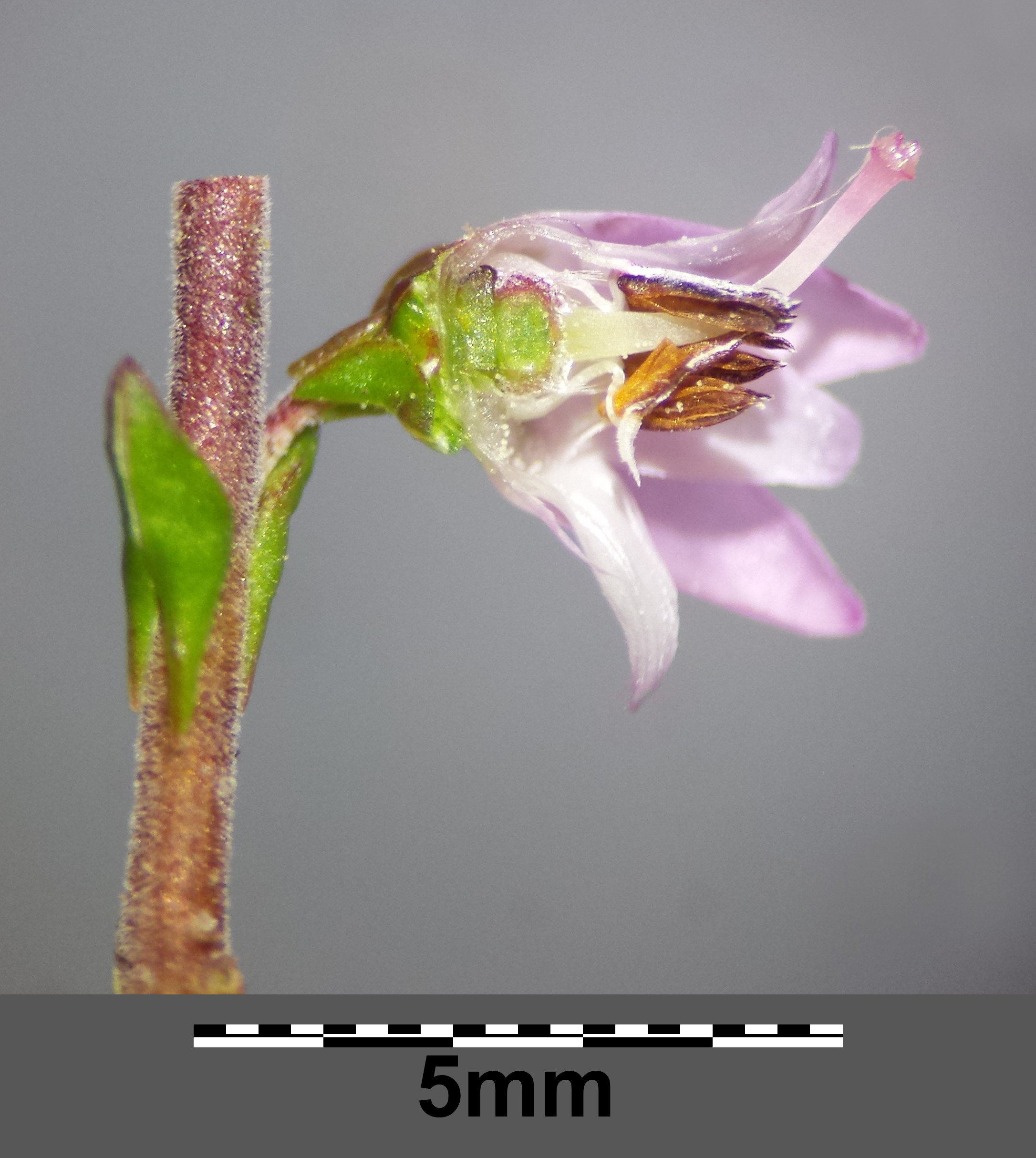 Flower, opened Taxonym: Calluna vulgaris ss Fischer et al. EfÖLS 2008 ISBN 978-3-85474-187-9 Location: near Altmelon, district Zwettl, Lower Austria - ca. 900 m a.s.l. Habitat: slope